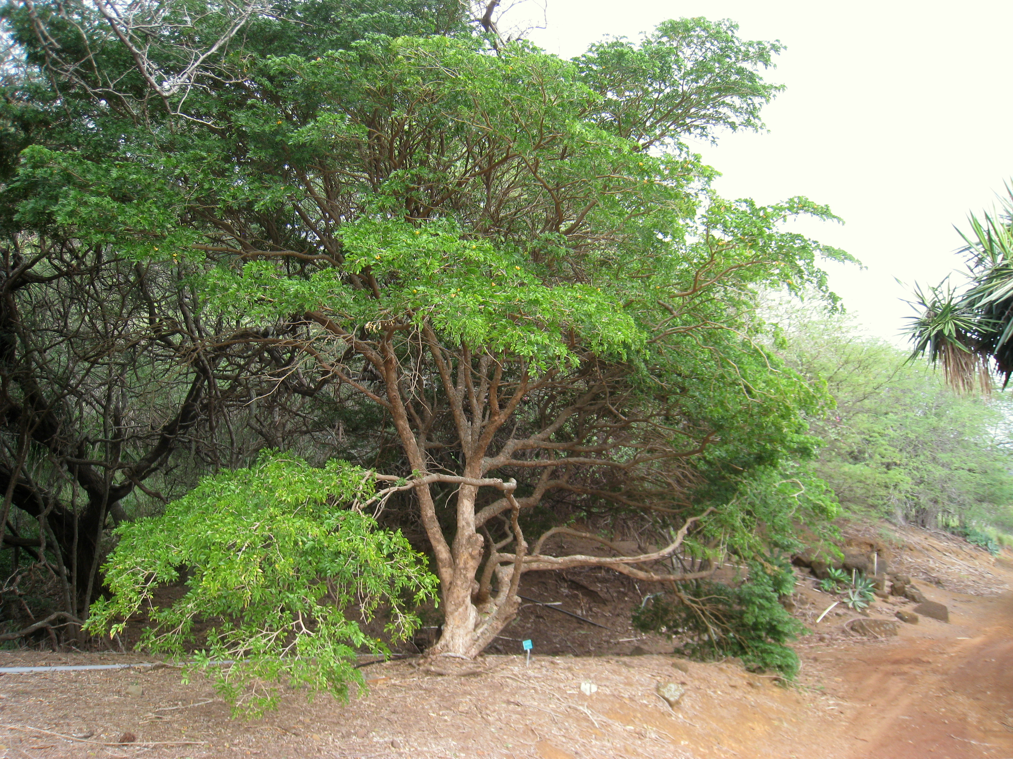 Guaiacum guatamalense in the Koko Crater Botanical Garden, Honolulu, Hawaii, USA.